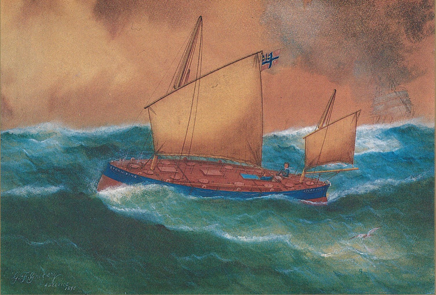 Storm King at sea - the very first capsuled lifeboat